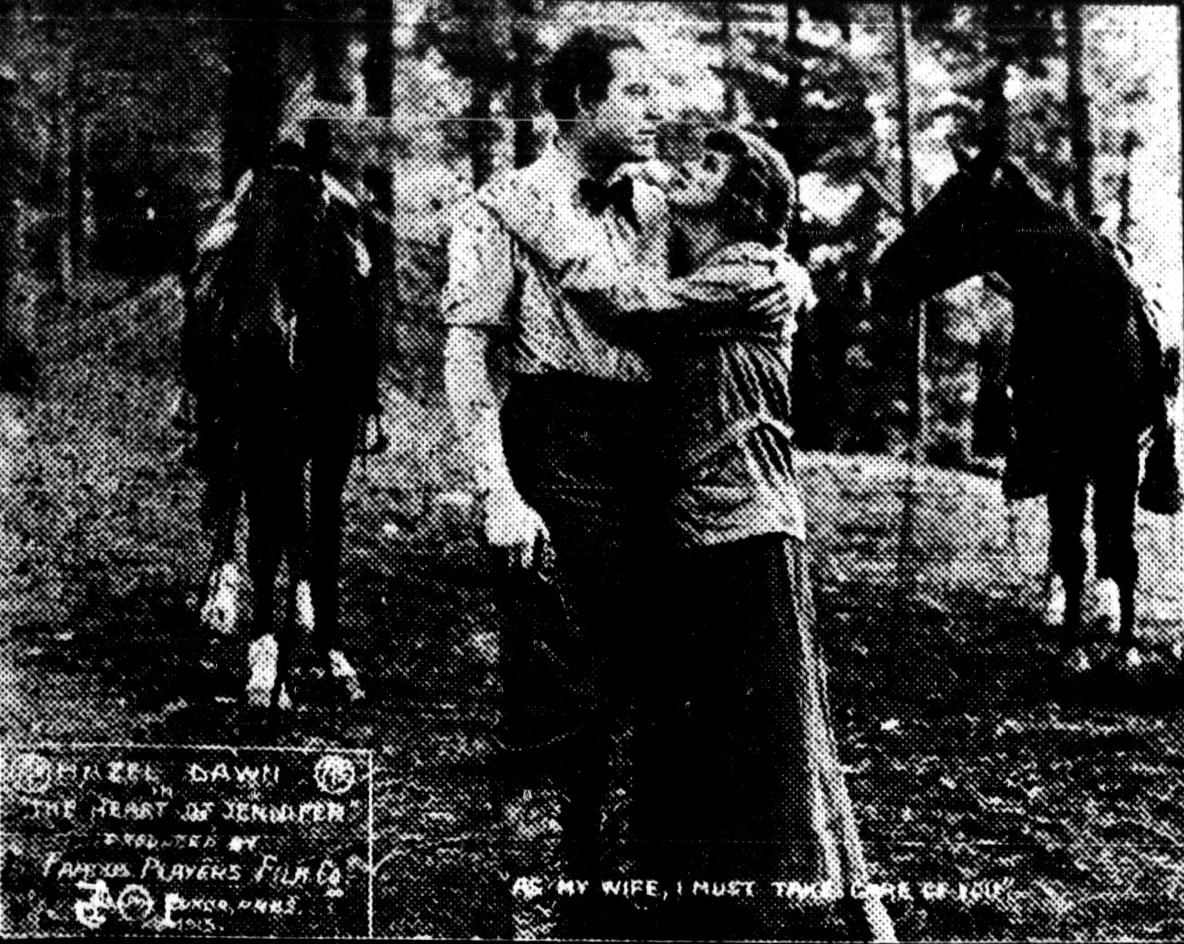 The Heart of Jennifer is a 1915 American drama silent film directed by James Kirkwood, Sr. and written by Edith Barnard Delano. This is a publicity photo published in a newspaper.